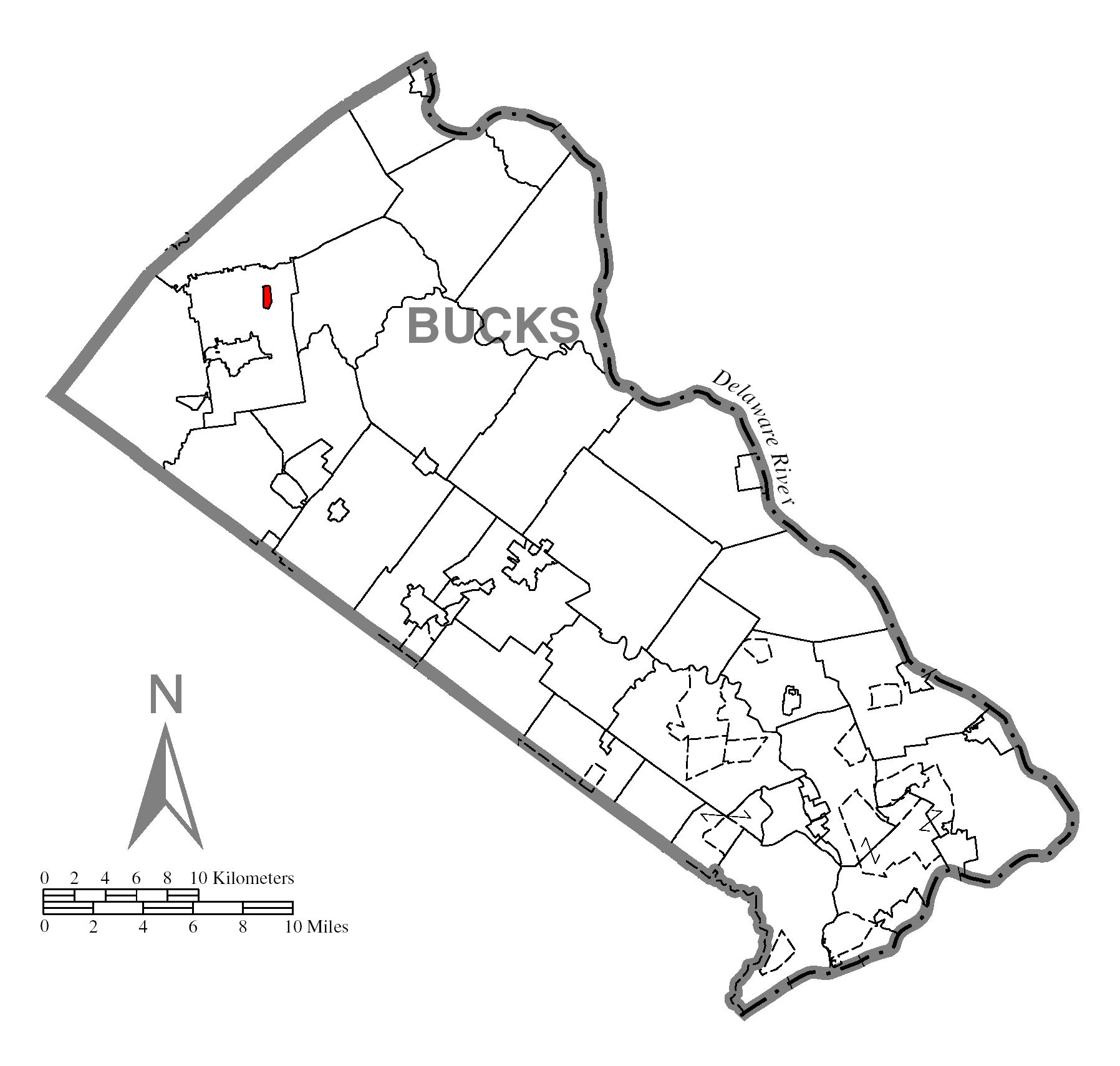 A map of Bucks County showing Richlandtown, Pennsylvania (alternate) highlighted on the map.